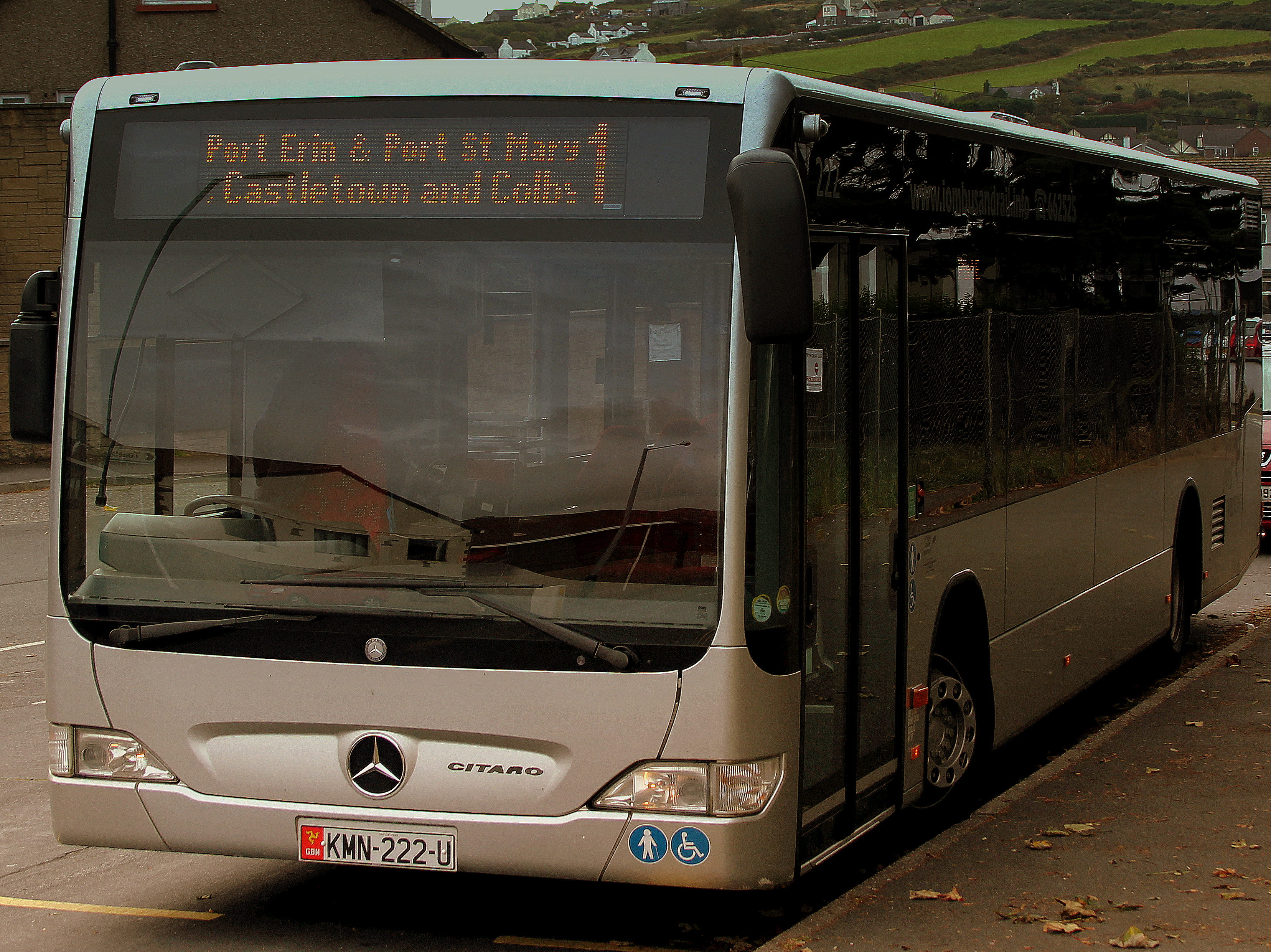 BUSVANNIN MERCEDES CITARO ROUTE 1 AT PORT ERIN ISLE OF MAN SEP 2014